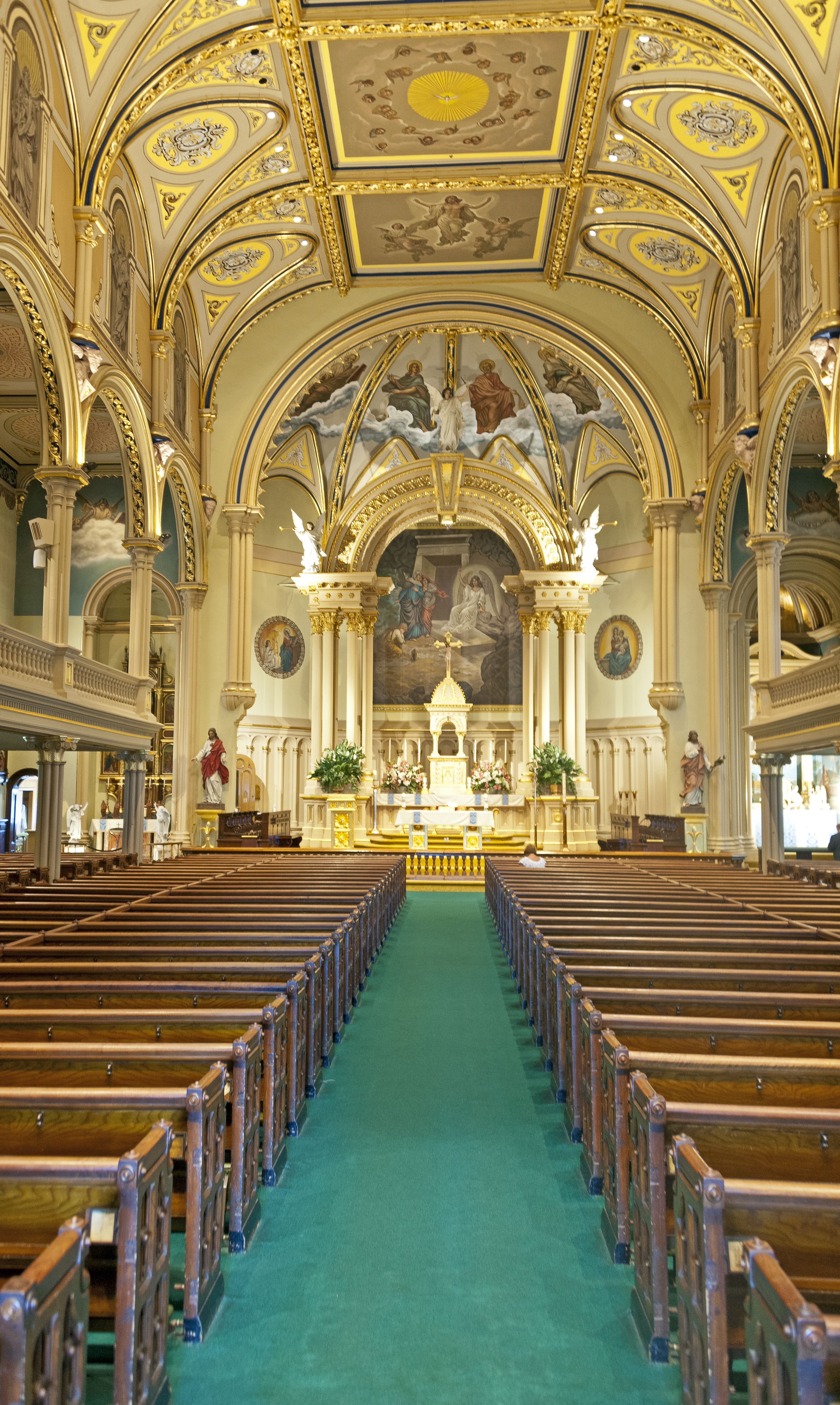 Sanctuary of St. Mary's Church, Albany, NY, USA